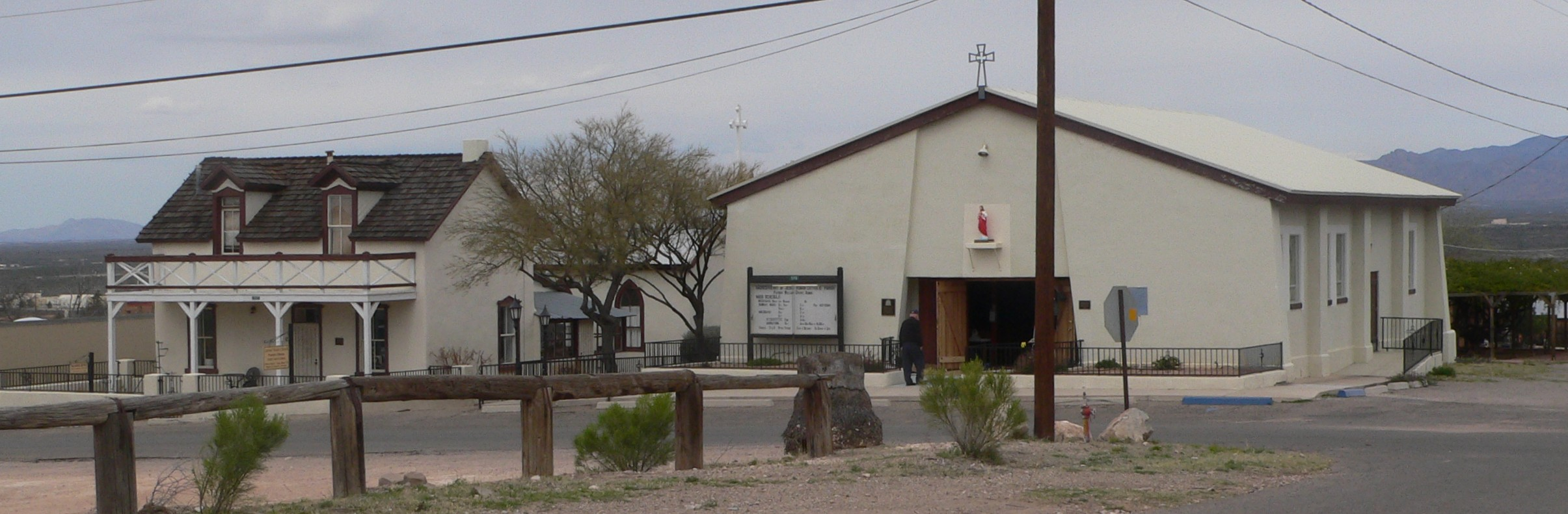 Sacred Heart complex, located at 6th and Safford Streets in Tombstone, Arizona; seen from the south. At left is the 1881 rectory; at right, the 1947 church.